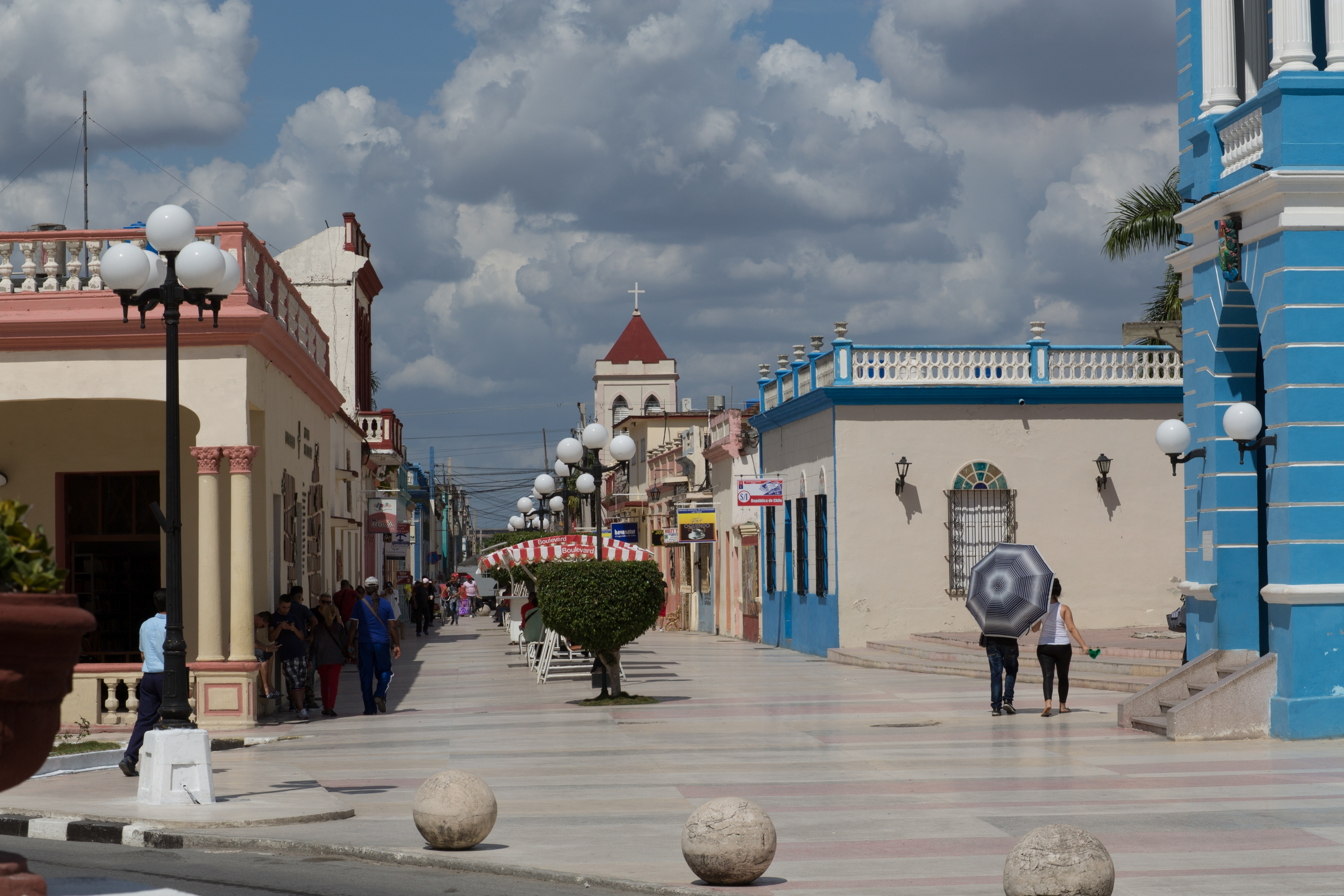 Las Tunas, capital of Las Tunas province, Cuba